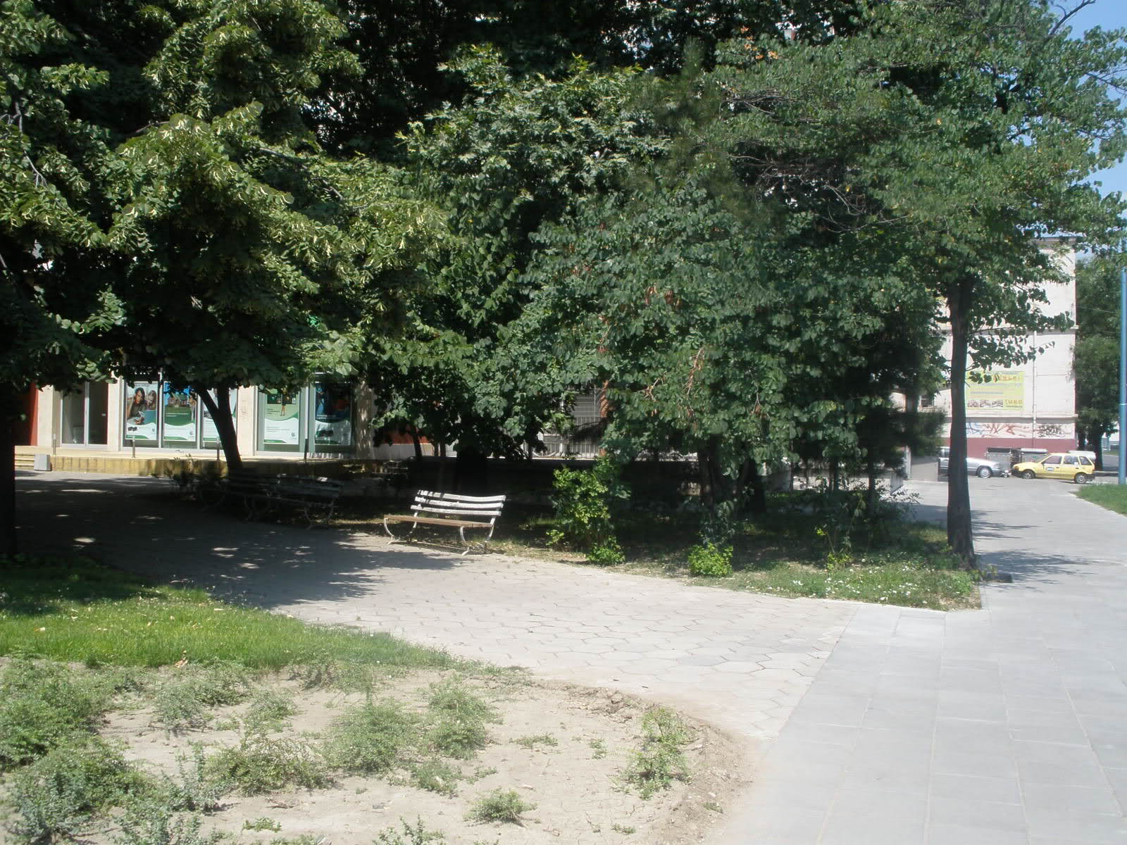 The old jewish school yard. Credit: Courtesy of Yossi Nevo .